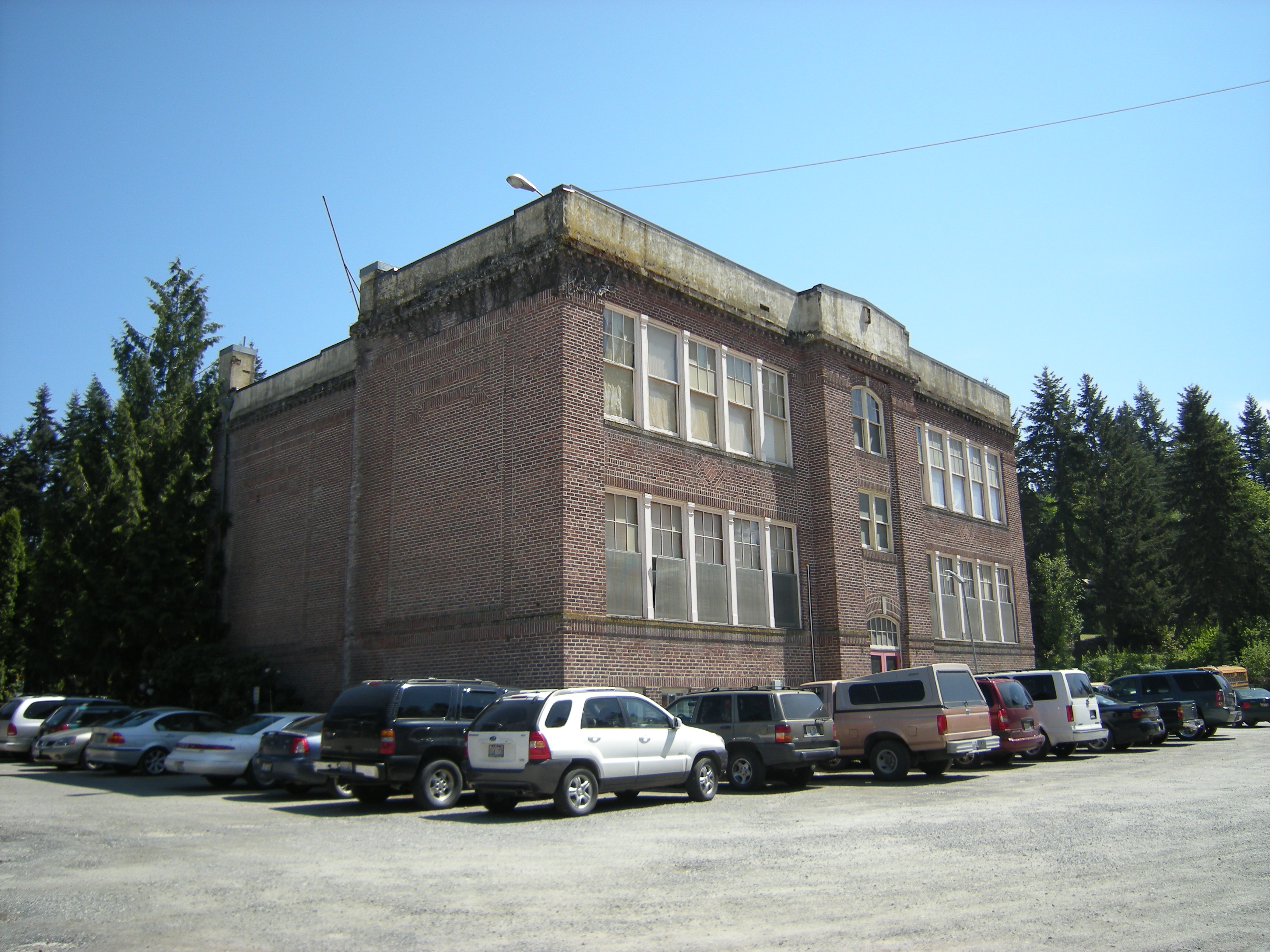 Old Maple Valley School, Maple Valley, Washington, USA. Part of the building is now a museum operated by the Maple Valley Historical Society. The building is listed as a King County landmark.